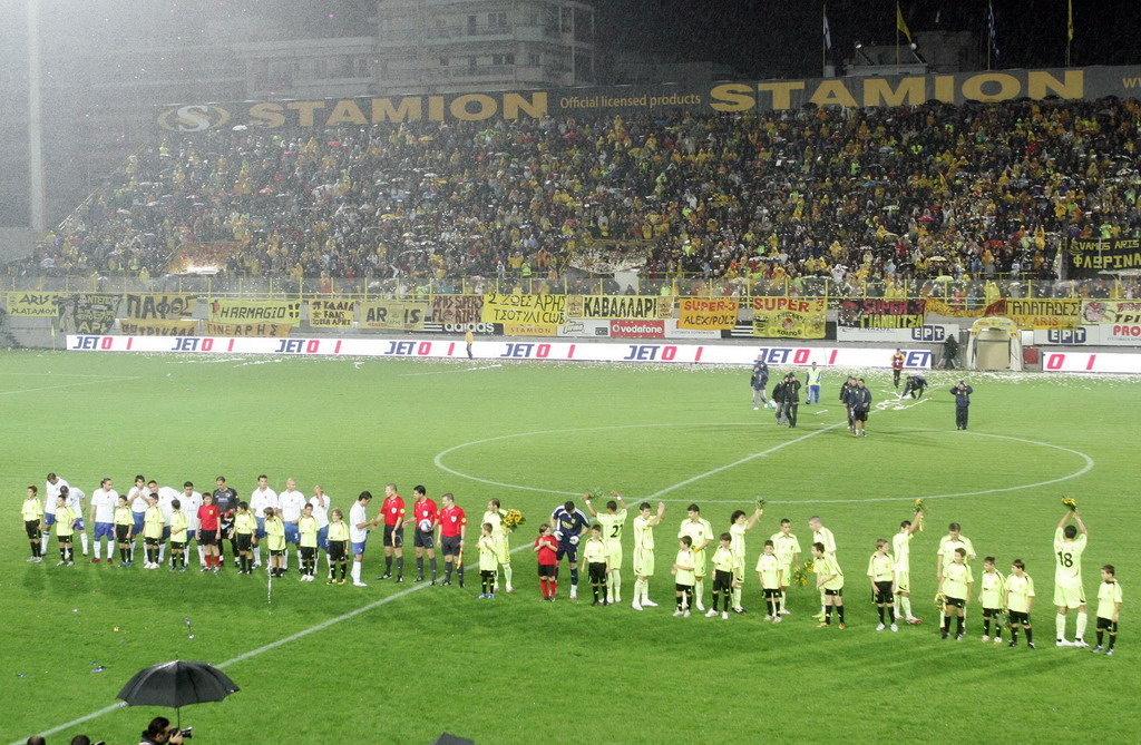 Picture of an Aris FC game